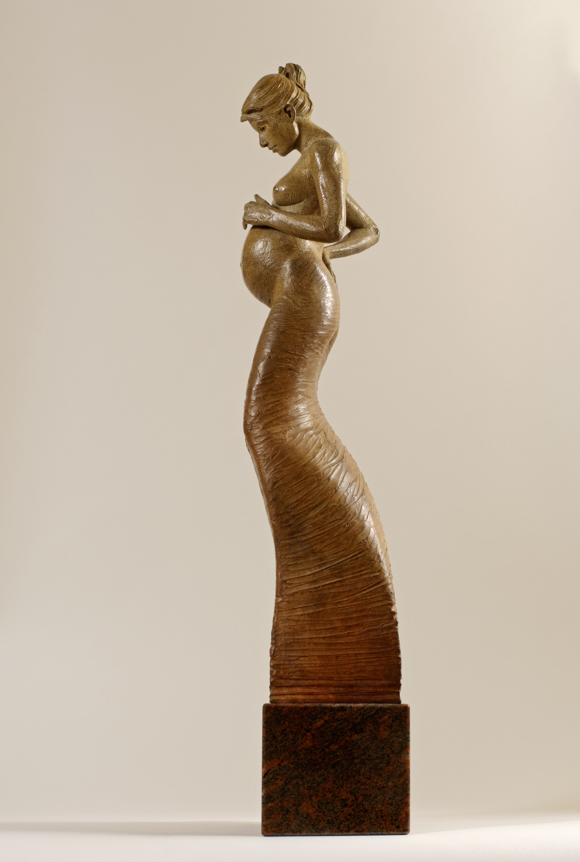 Sculpture of a pregnant woman by Steven Whyte